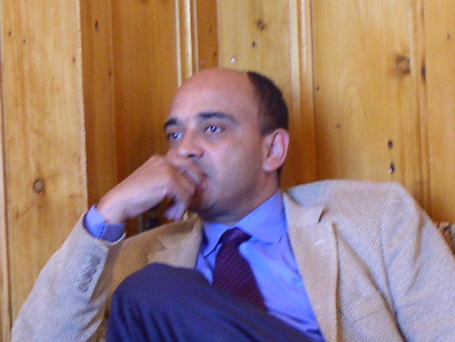 Kwame Anthony Appiah during a visit to Knox College